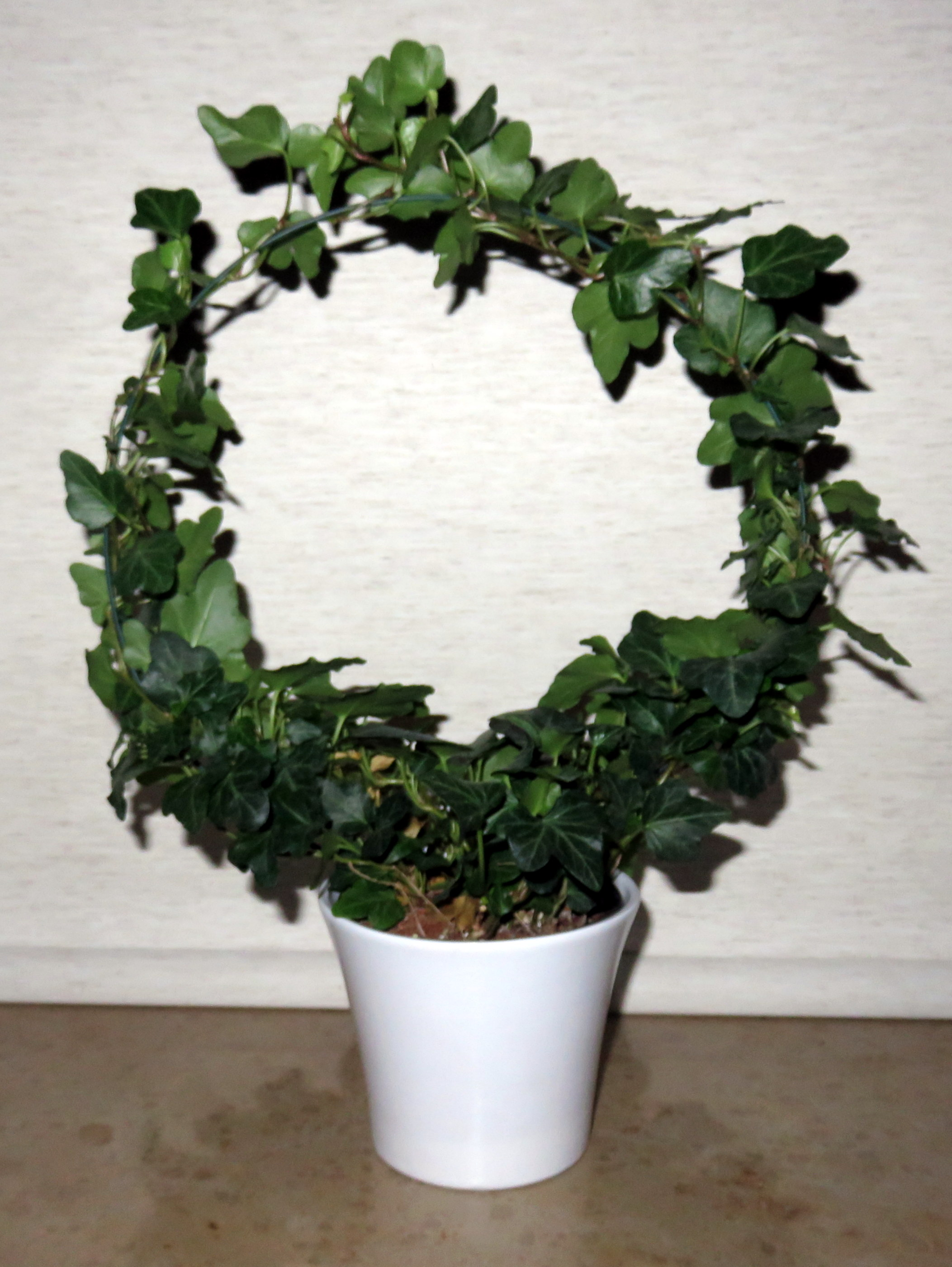 Hedera Helix potted and wound around a wire to a wreath.